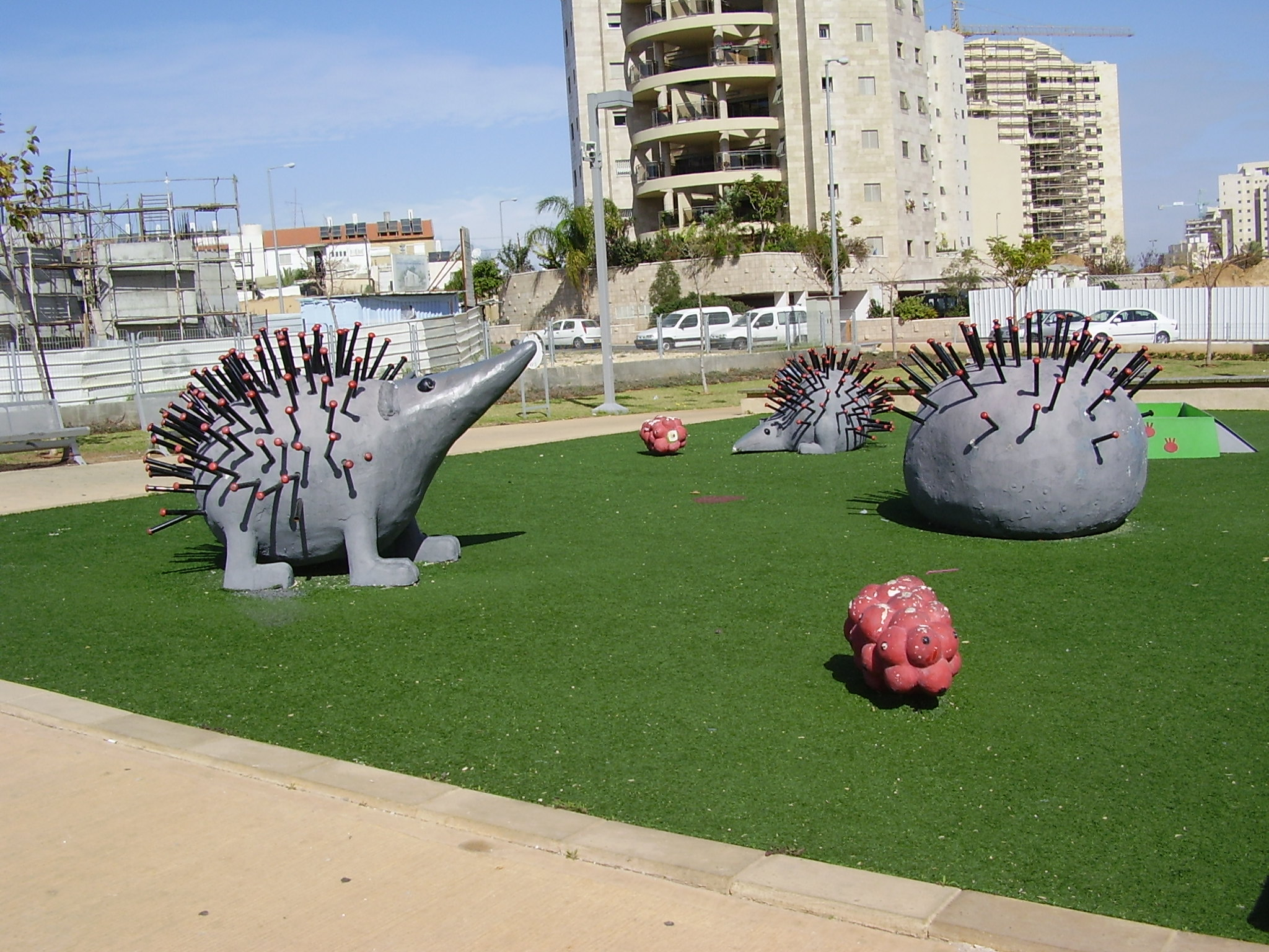 Hedgehog garden in Holon